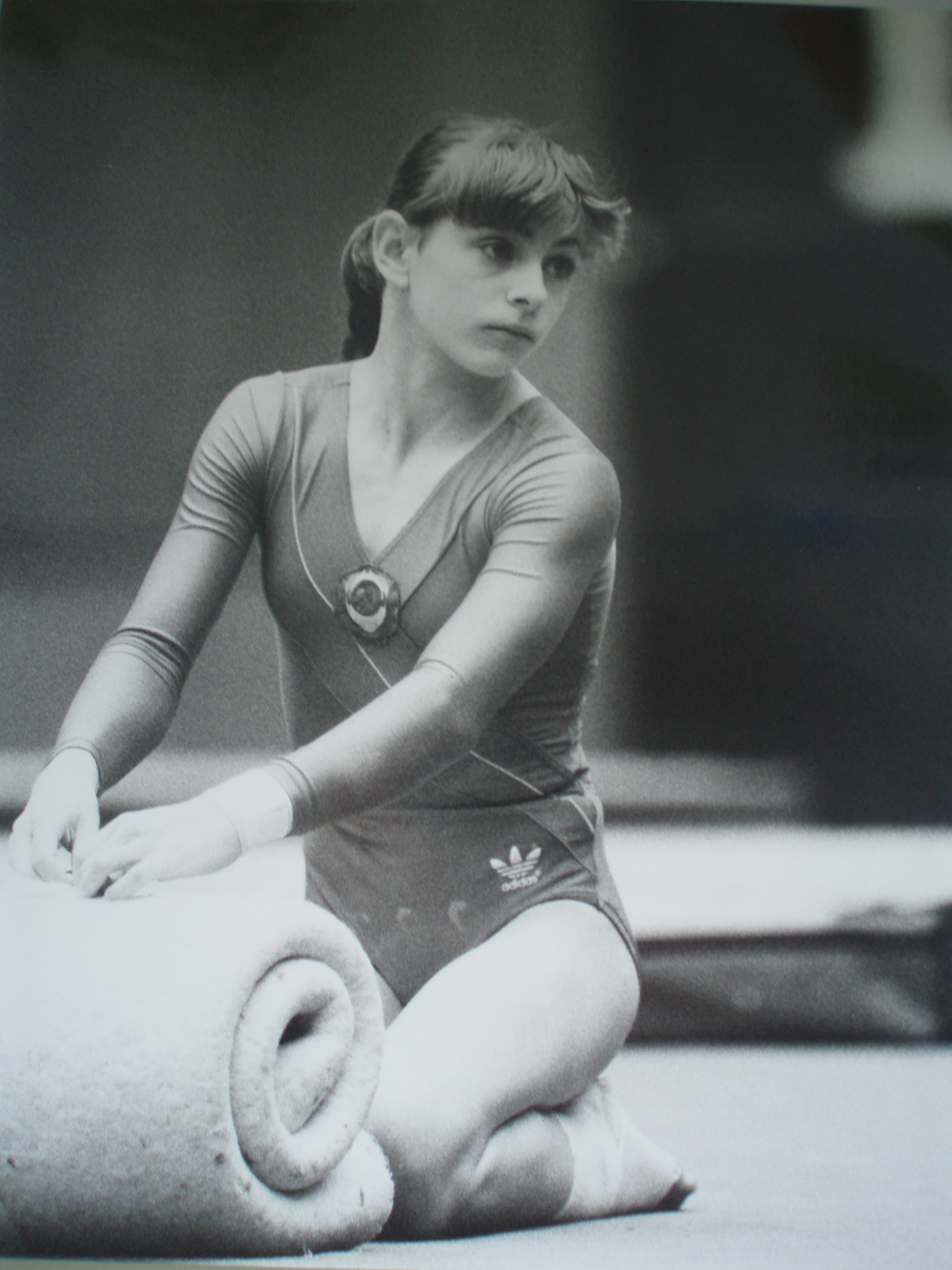 Russian gymnast Oksana Omelianchik